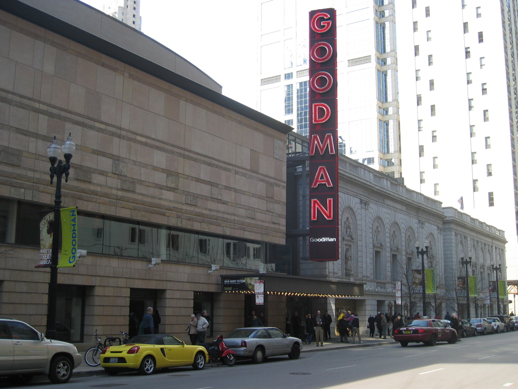 The Goodman Theatre, Chicago, Illinois. Photographed 6 April 2006. © Jeremy Atherton, 2006.